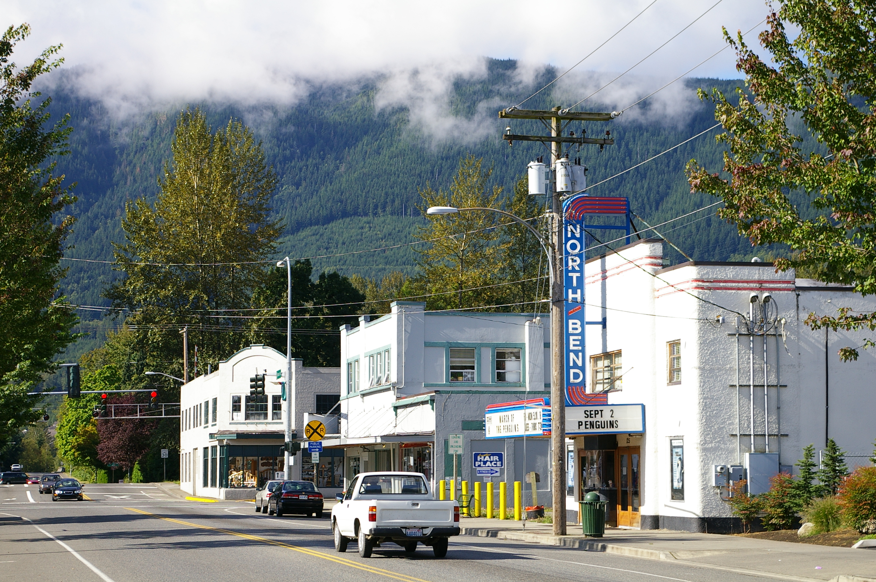 North Bend, WA. Bendigo Rd looking South. Art Deco North Bend Movie Theater built 1941, renovated 1999. Scotts Realty Building. On the other side of North Bend Way, is the Historic Sunset Garage. Rattlesnake Ridge is in the background. (cc) 2005 Konrad Roeder